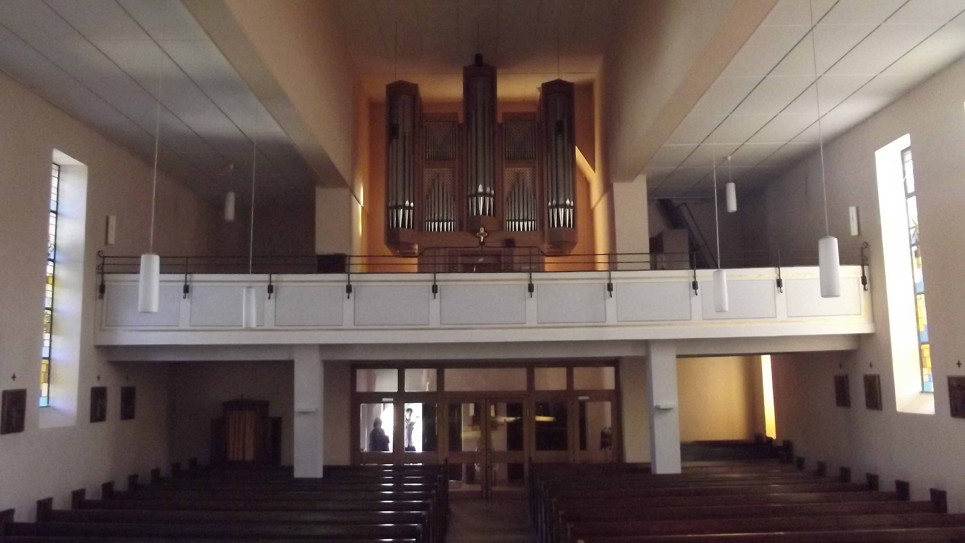 Interior of the roman catholic church in Michelbach, Saarland